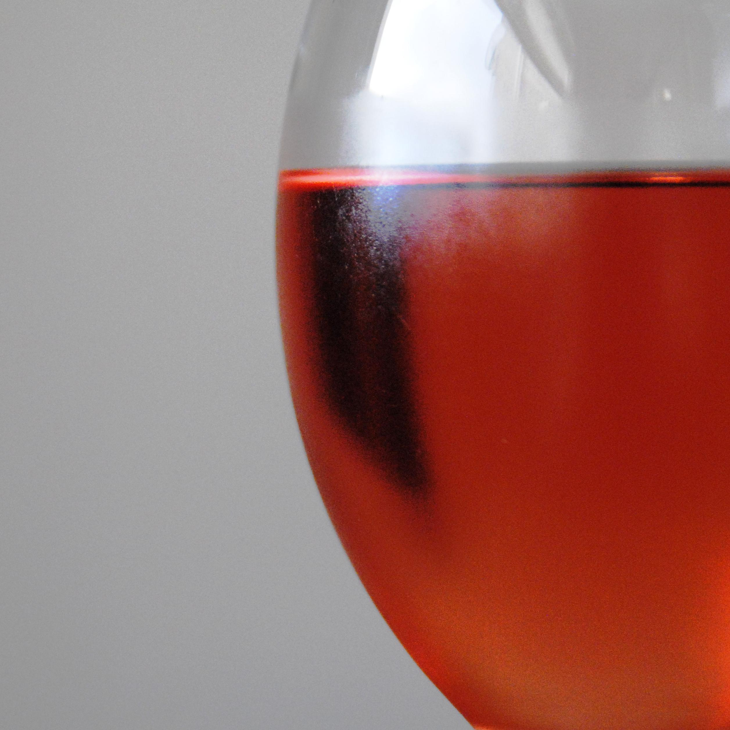 Close up of a glass of rose wine.